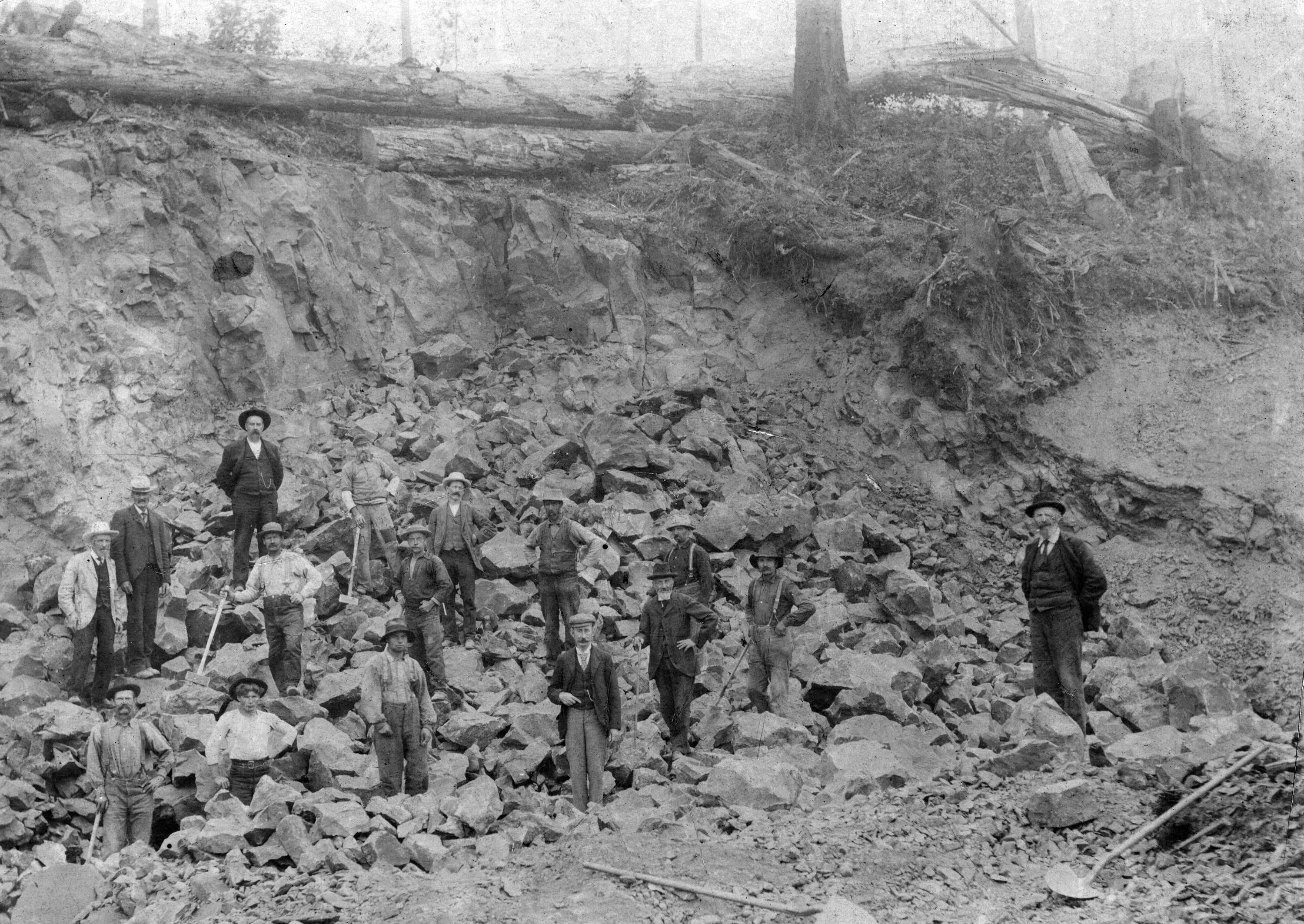 A photograph of the Reeve and Councillors of Vancouver, BC inspecting the Little Mountain Quarry in the early 1900s.